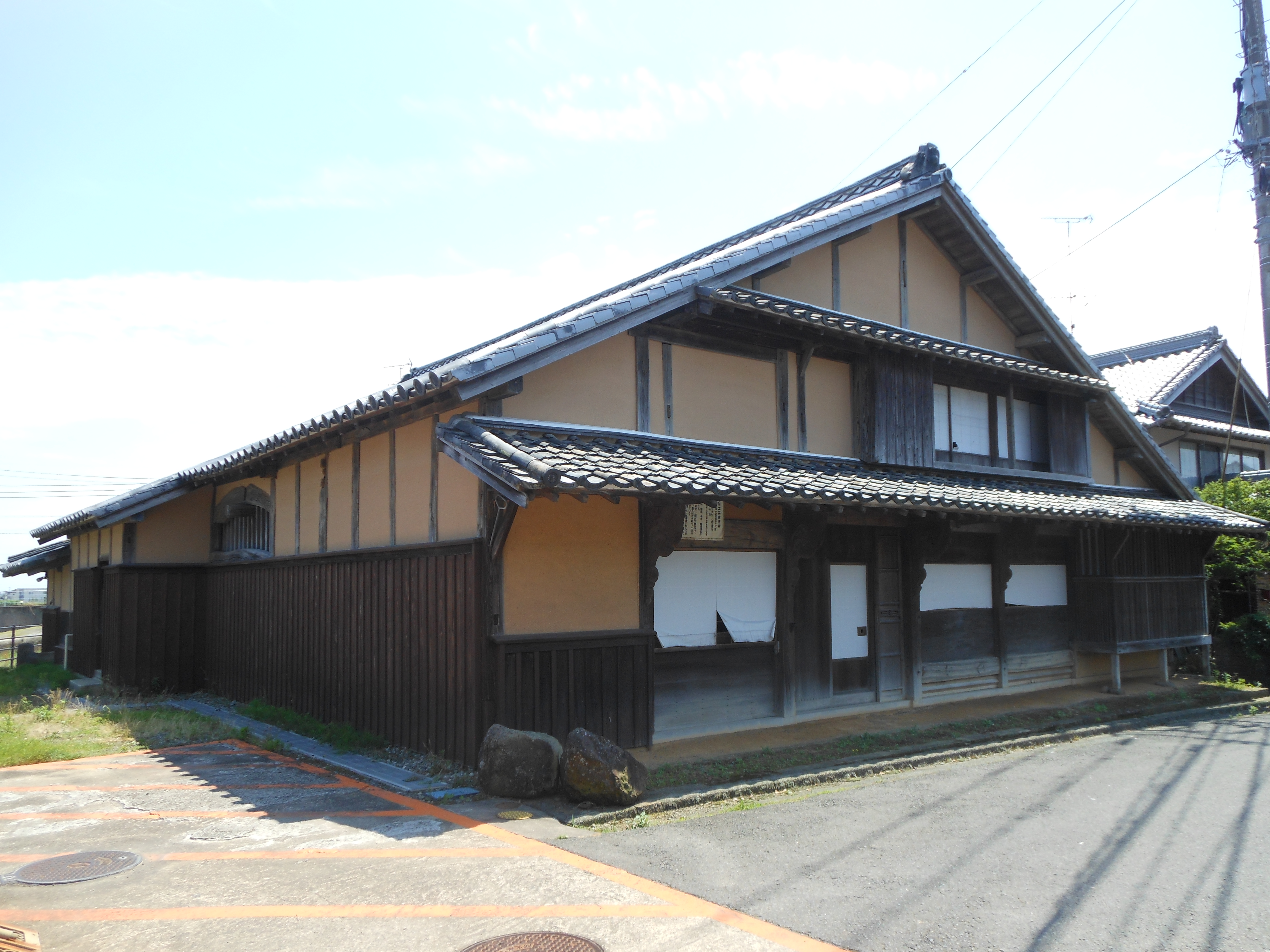 The Doi Family's House, in Ōmachi town, Saga prefecture.